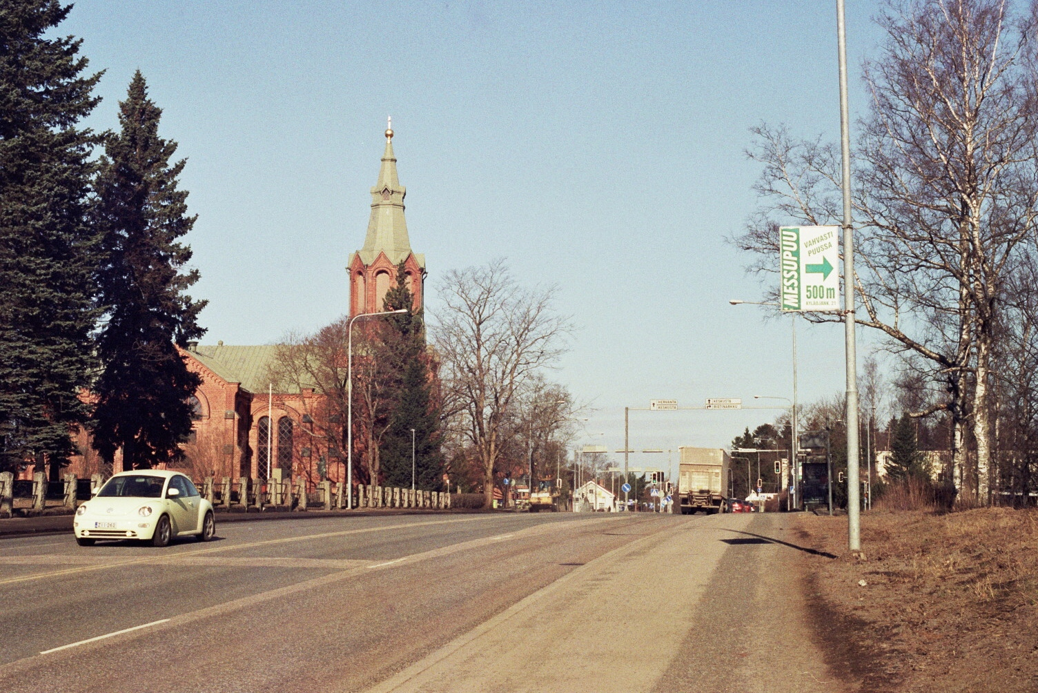 Messukylänkatu, a street in the Messukylä district of the city of Tampere in Finland. On the left is the current church of Messukylä, built in 1879.